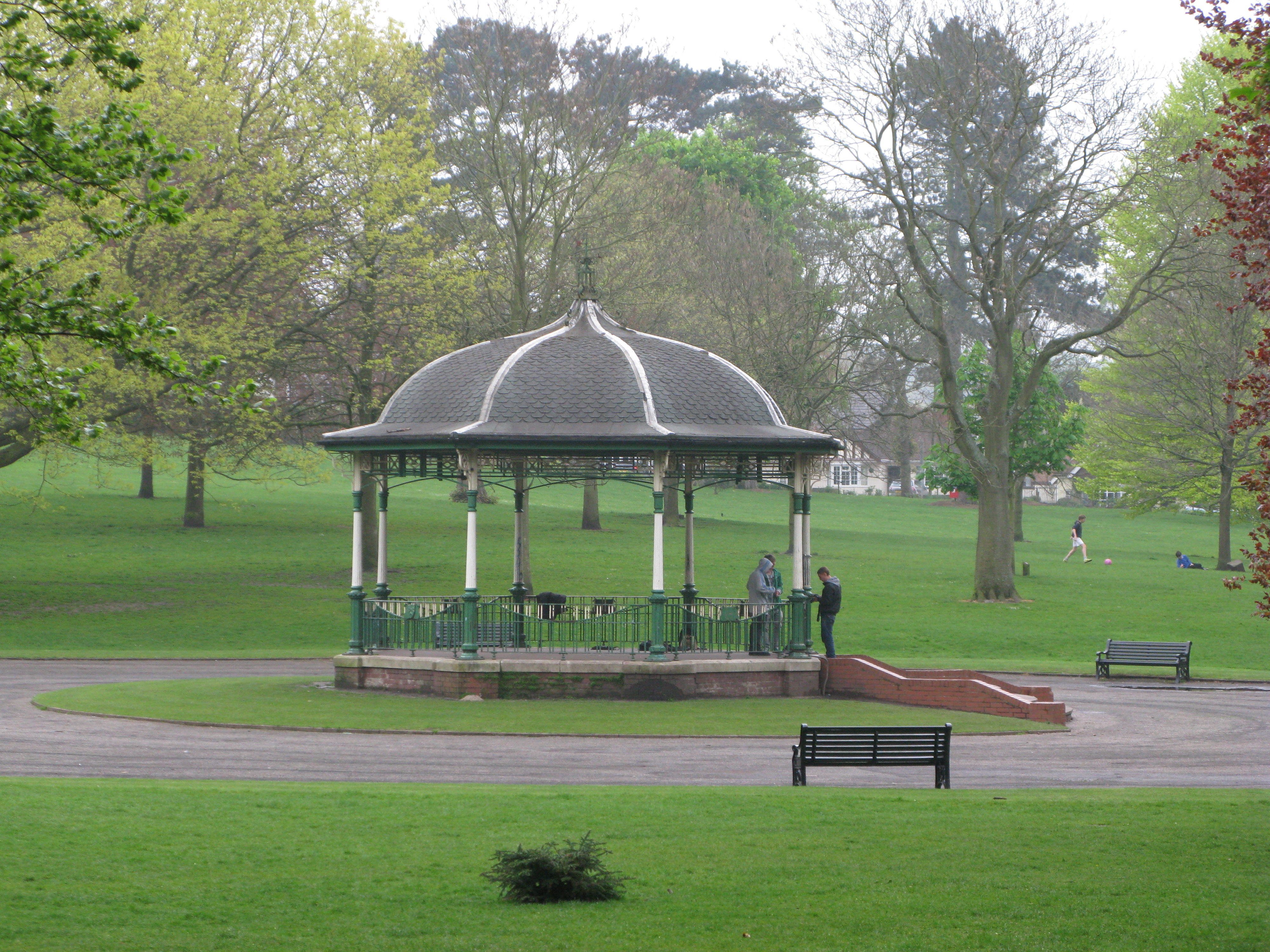 Right in the middle of the Park